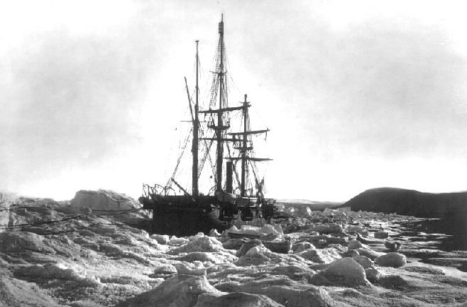 The HMS Alert in the ice of Robeson Channel during the British Arctic Expedition.